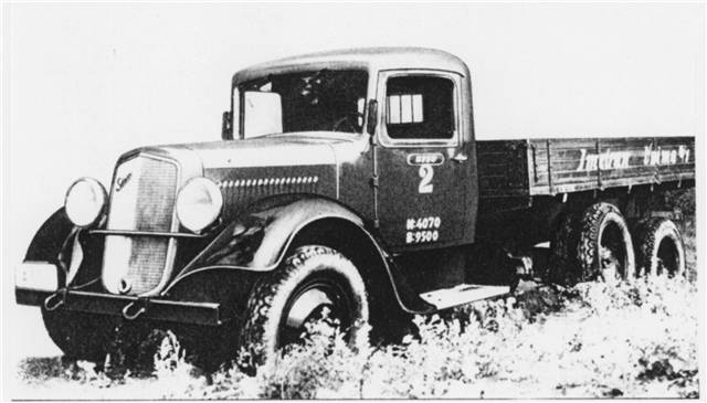 Sisu SH-3R-LF 6×2 from 1935. Kerb weight 4 070 kg, total weight 9 500 kg. Used by company Imatran Voima Oy.